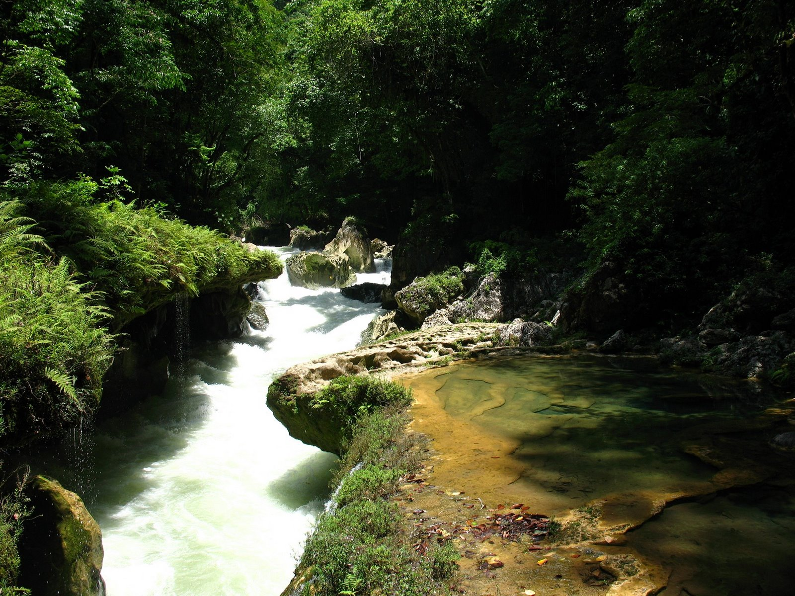 Río Cahabon River crossing the Semuc Champey Natural Monument, Guatemala